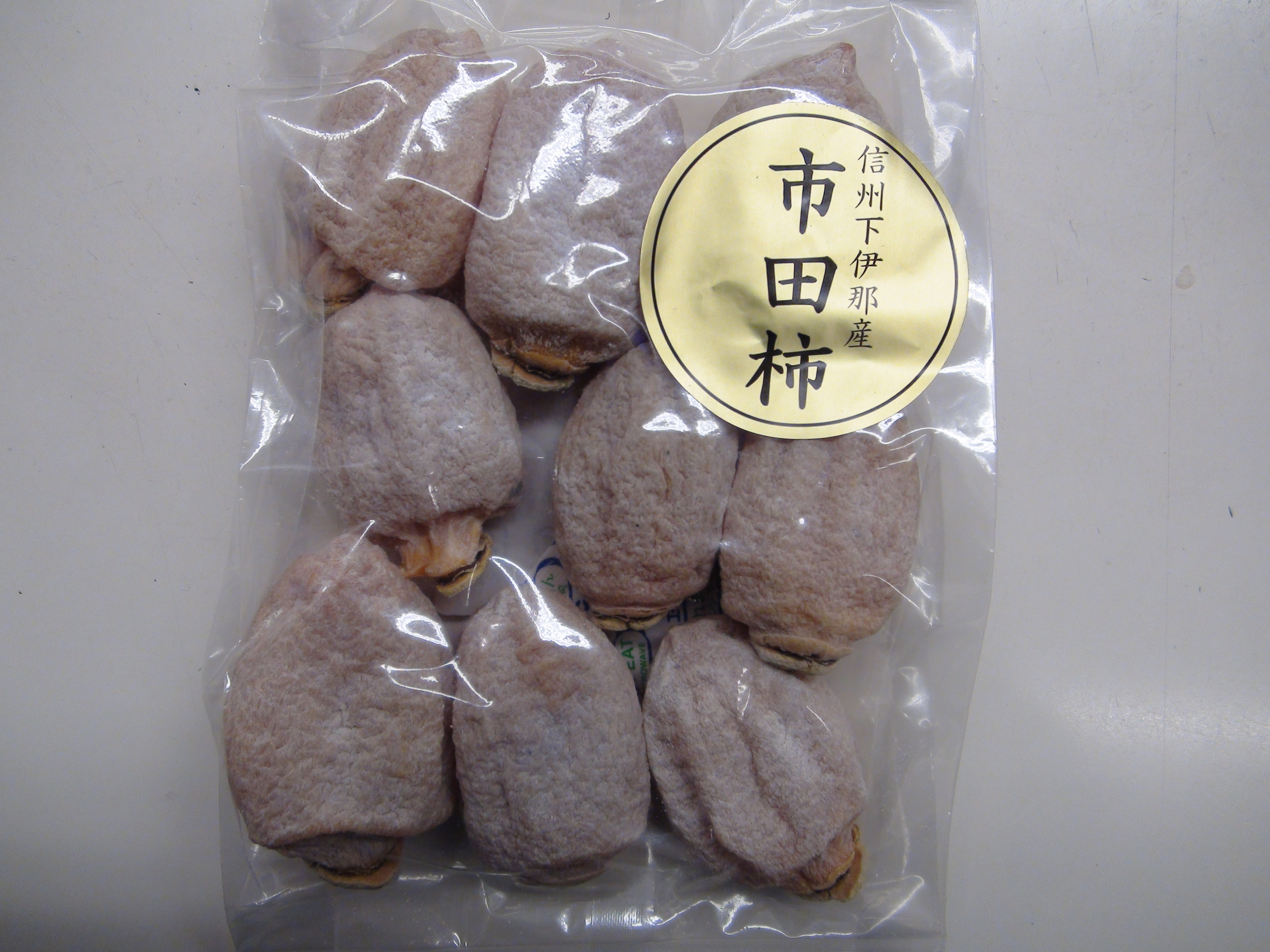 Ichida-Gaki of dried persimmon